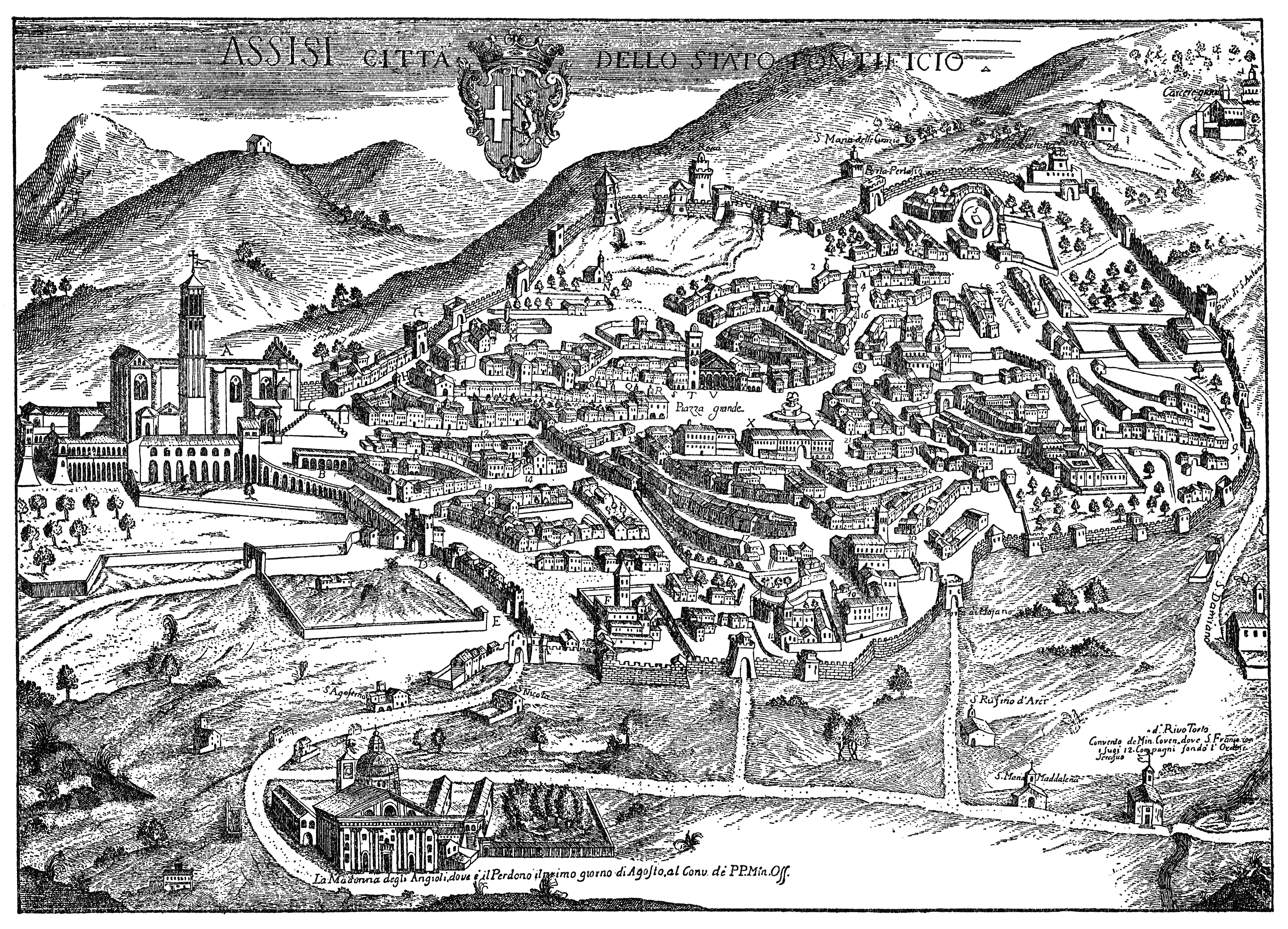 Engraving showing a panoramic view of Assisi, entitled Assisi città dello stato pontificio (“Assisi, a city of the Papal state”). Reproduced in the book Duecento. Hohes Mittelalter in Italien by Hélène Nolthenius, German edition Würzburg 1957, after page 304. Neither the artist nor the date of the engraving is given in the book. I think it’s an Italian 16th century engraving, but please correct me if you know more! — Image slightly edited to remove traces of folds and dog’s ears.